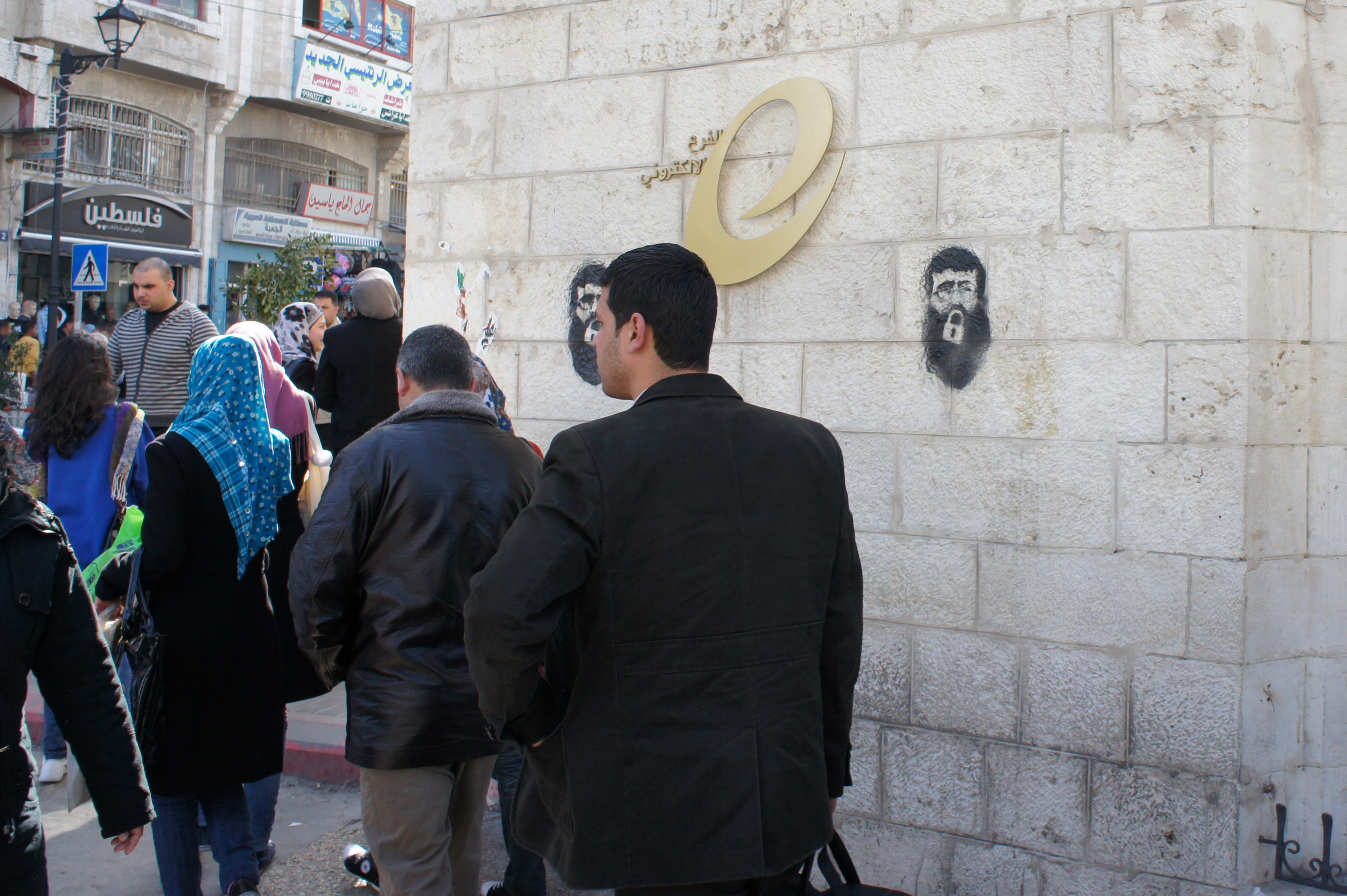 People passing by a Khader Adnan stencil on a wall by Manara square, Ramallah, 23 Feb. 2012